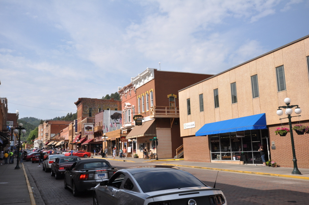 Deadwood Historic District, encompassing virtually all of Deadwood, South Dakota.